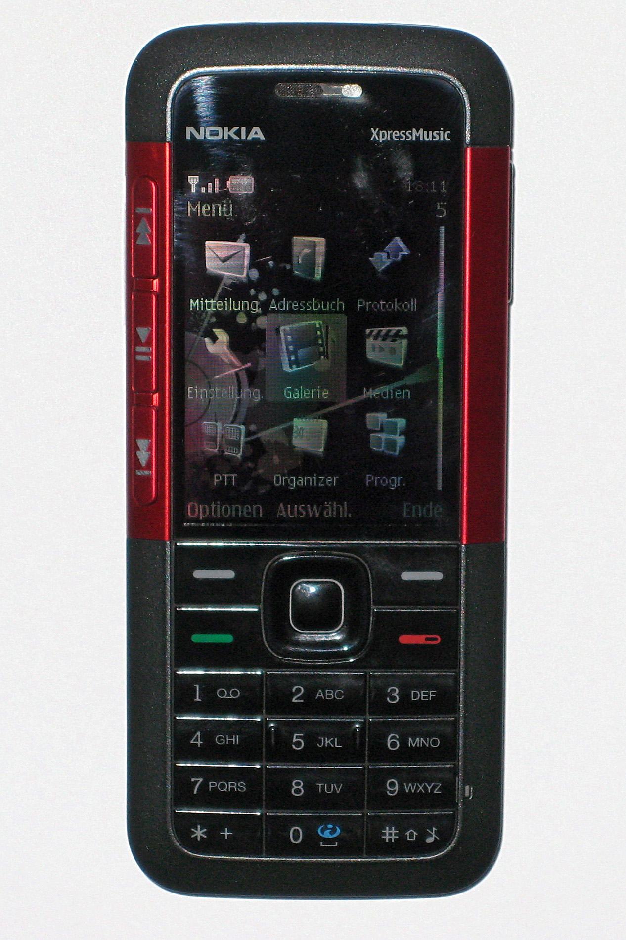 Nokia 5310 Xpress Music